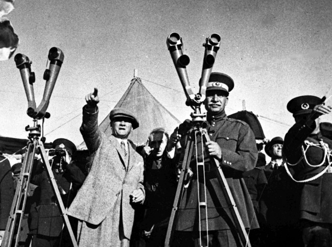 President of Turkey Kemal Ataturk, left, points out something of interest to the Shah of Persia, Reza Shah Pahlavi, during military maneuvers in Turkey, July 3, 1934.